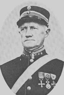 Portrait of Norwegian coastal artillery commander Colonel Birger Kristian Eriksen with the War Cross with sword, Légion d'honneur and Croix de guerre.